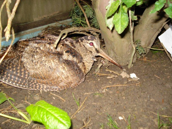 A Eurasian Woodcock, found and photographed in Walloon Brabant in Belgium in summer 2008.